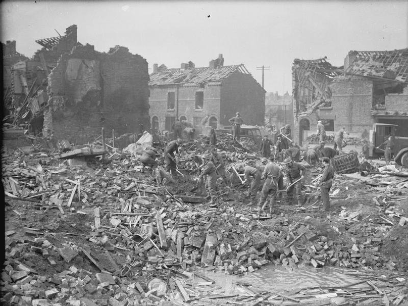 Air Raid Damage in the United Kingdom 1939-1945 British troops of Western Command clearing up bomb damage in Birkenhead, Cheshire, 15 March 1941.